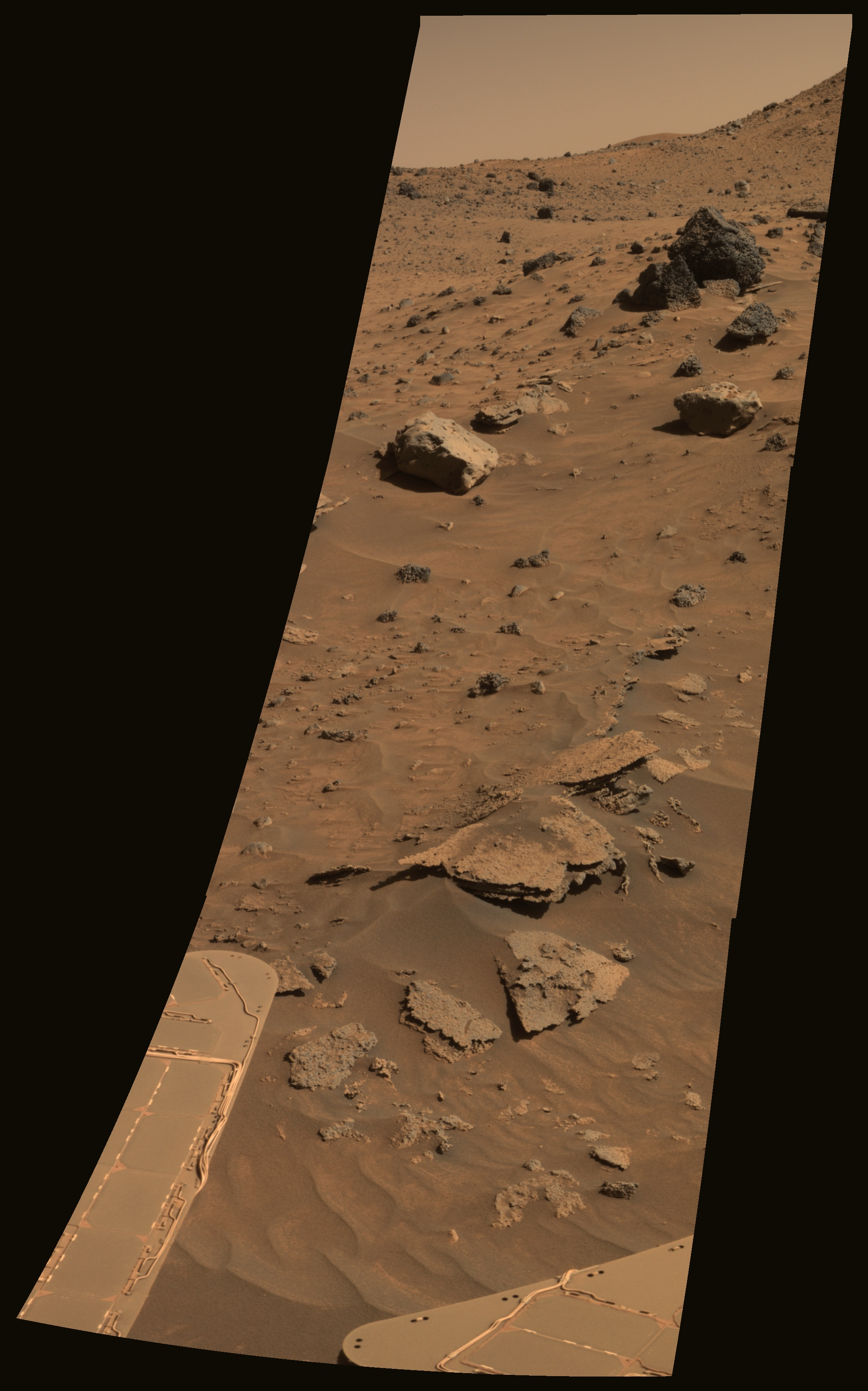 From its winter outpost at "Low Ridge" inside Gusev Crater, NASA's Mars Exploration Rover Spirit took this spectacular, color mosaic of hilly, sandy terrain and two potential iron meteorites. The two light-colored, smooth rocks about two-thirds of the way up from the bottom of the frame have been labeled "Zhong Shan" and "Allan Hills." The two rocks' informal names are in keeping with the rover science team's campaign to nickname rocks and soils in the area after locations in Antarctica. Zhong Shang is an Antarctic base that the People's Republic of China opened on Feb. 26, 1989, at the Larsemann Hills in Prydz Bay in East Antarctica. Allan Hills is a location where researchers have found many Martian meteorites, including the controversial ALH84001, which achieved fame in 1996 when NASA scientists suggested that it might contain evidence for fossilized extraterrestrial life. Zhong Shan was the given name of Dr. Sun Yat-sen (1866-1925), known as the "Father of Modern China." Born to a peasant family in Guangdong, Sun moved to live with his brother in Honolulu at age 13 and later became a medical doctor. He led a series of uprisings against the Qing dynasty that began in 1894 and eventually succeeded in 1911. Sun served as the first provisional president when the Republic of China was founded in 1912. The Zhong Shan and Allan Hills rocks, at the left and right, respectively, have unusual morphologies and miniature thermal emission spectrometer signatures that resemble those of a rock known as "Heat Shield" at the Meridiani site explored by Spirit's twin, Opportunity. Opportunity's analyses revealed Heat Shield to be an iron meteorite. Spirit acquired this approximately true-color image on the rover's 872nd Martian day, or sol (June 16, 2006), using exposures taken through three of the panoramic camera's filters, centered on wavelengths of 600 nanometers, 530 nanometers, and 480 nanometers. Image Credit: NASA/JPL-Caltech/Cornell